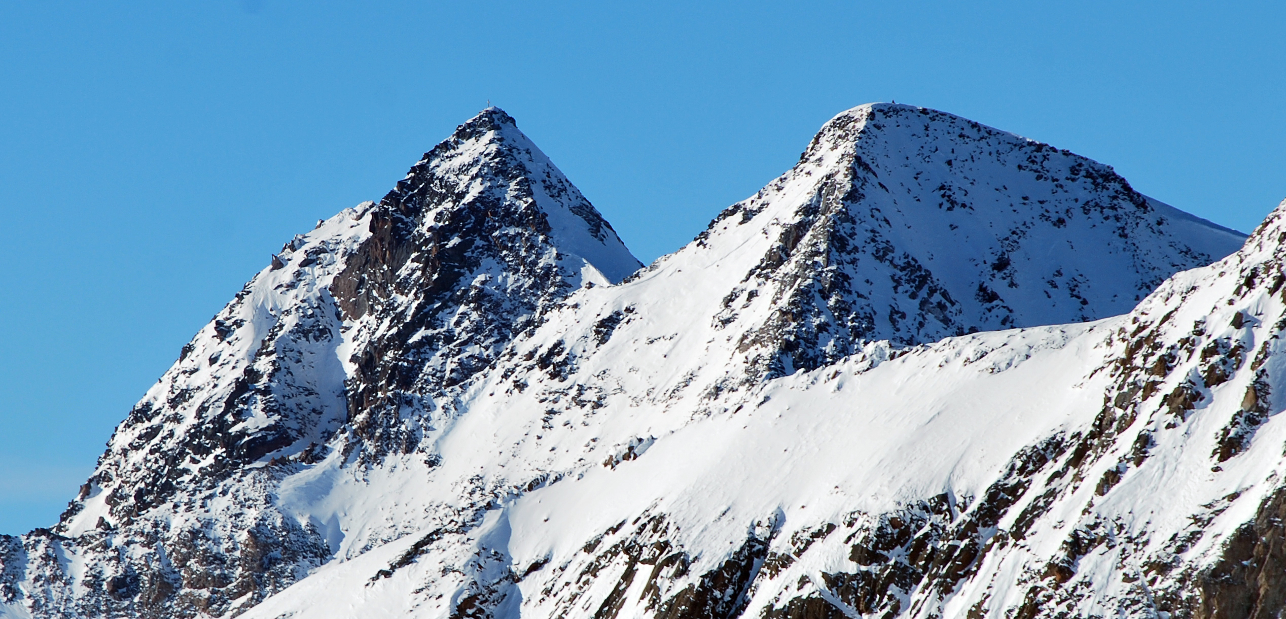 Zuckerhütl (3505m) and Wilder Pfaff (3458m) seen from east (Agglsspitze)